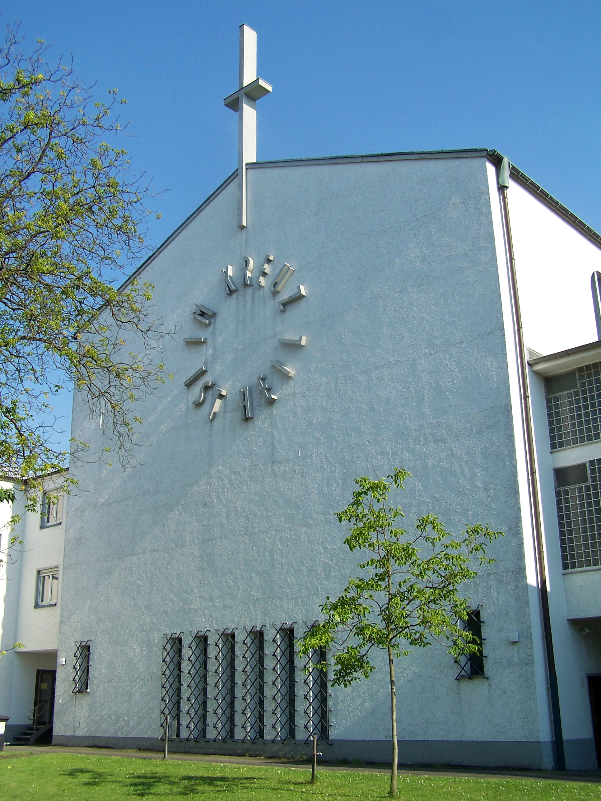 Holy Cross Church in Frankfurt am Main-Bornheim, seen from north with circle-shaped inscription "Im Kreuz ist Heil" by Arnold Hensler